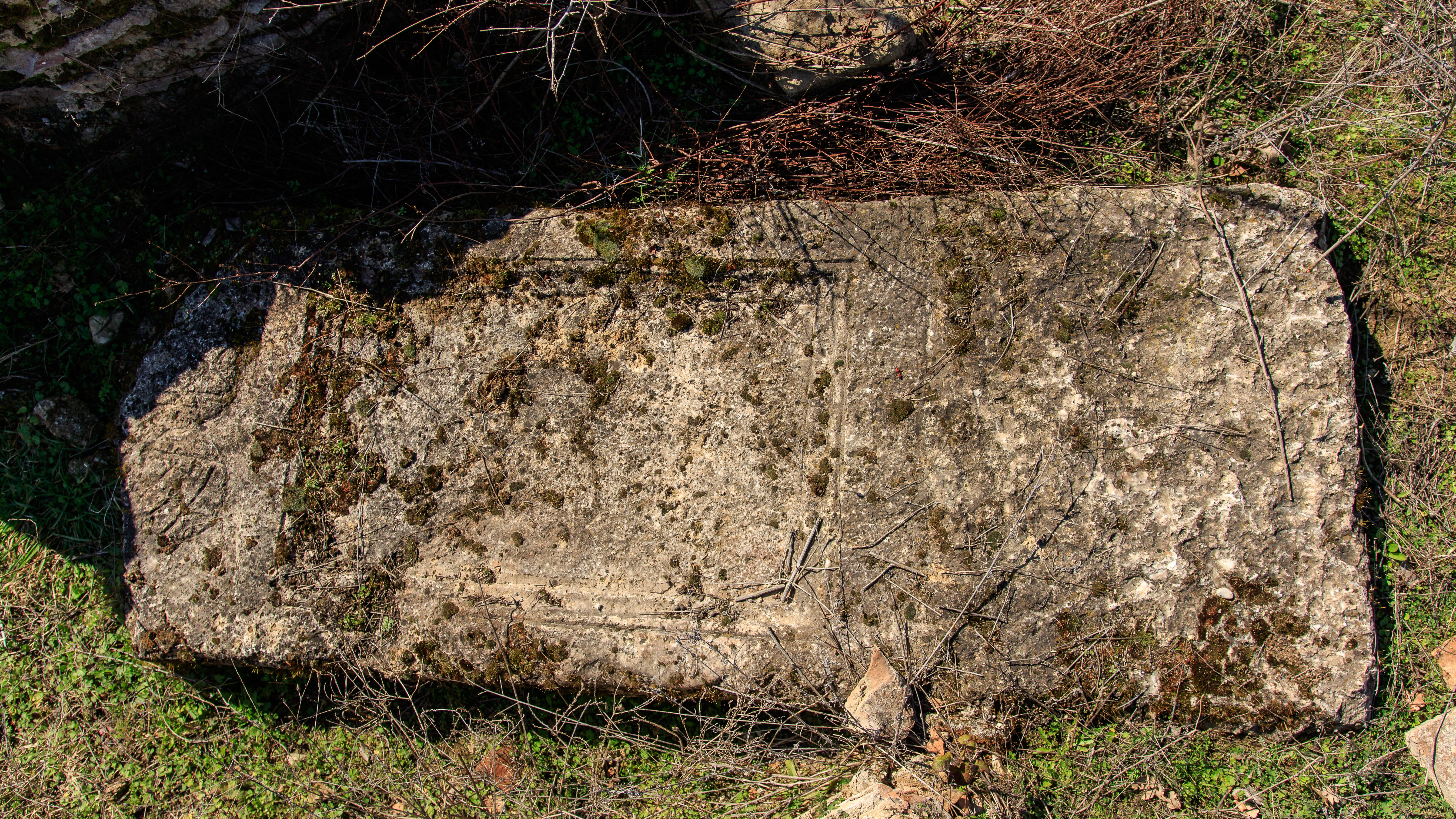 One of the stone artifacts dug up in Tauresium (Macedonia) archaeological site.